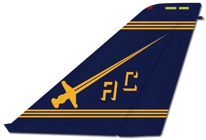 The tail of a US Navy F-14B (Upgrade) Tomcat, belonging to VF-32, the "Swordsmen". Original created in Adobe Photoshop by Erik Hess in 2004.